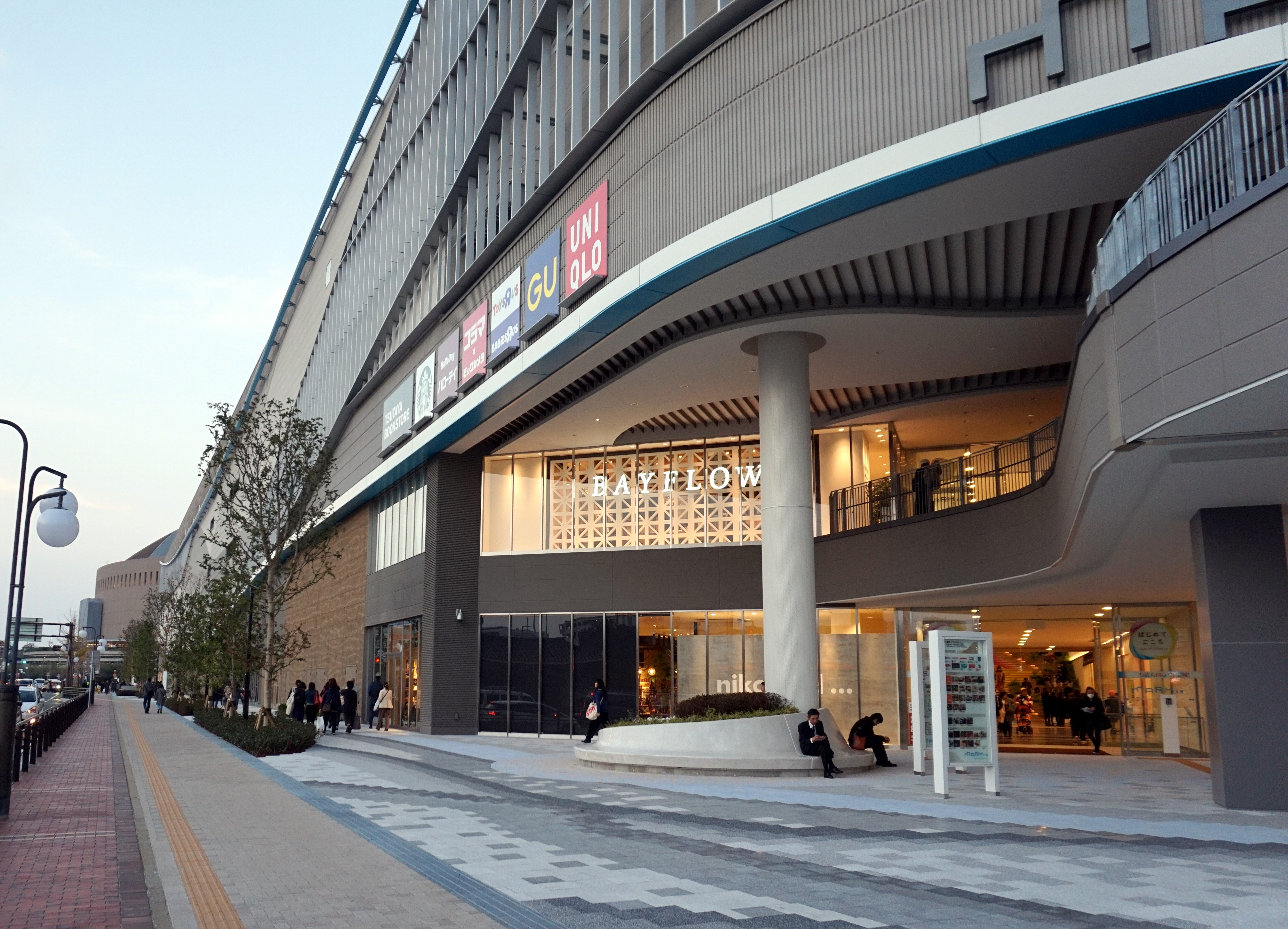 MARK IS Fukuoka Momochi, Fukuoka, Japan.